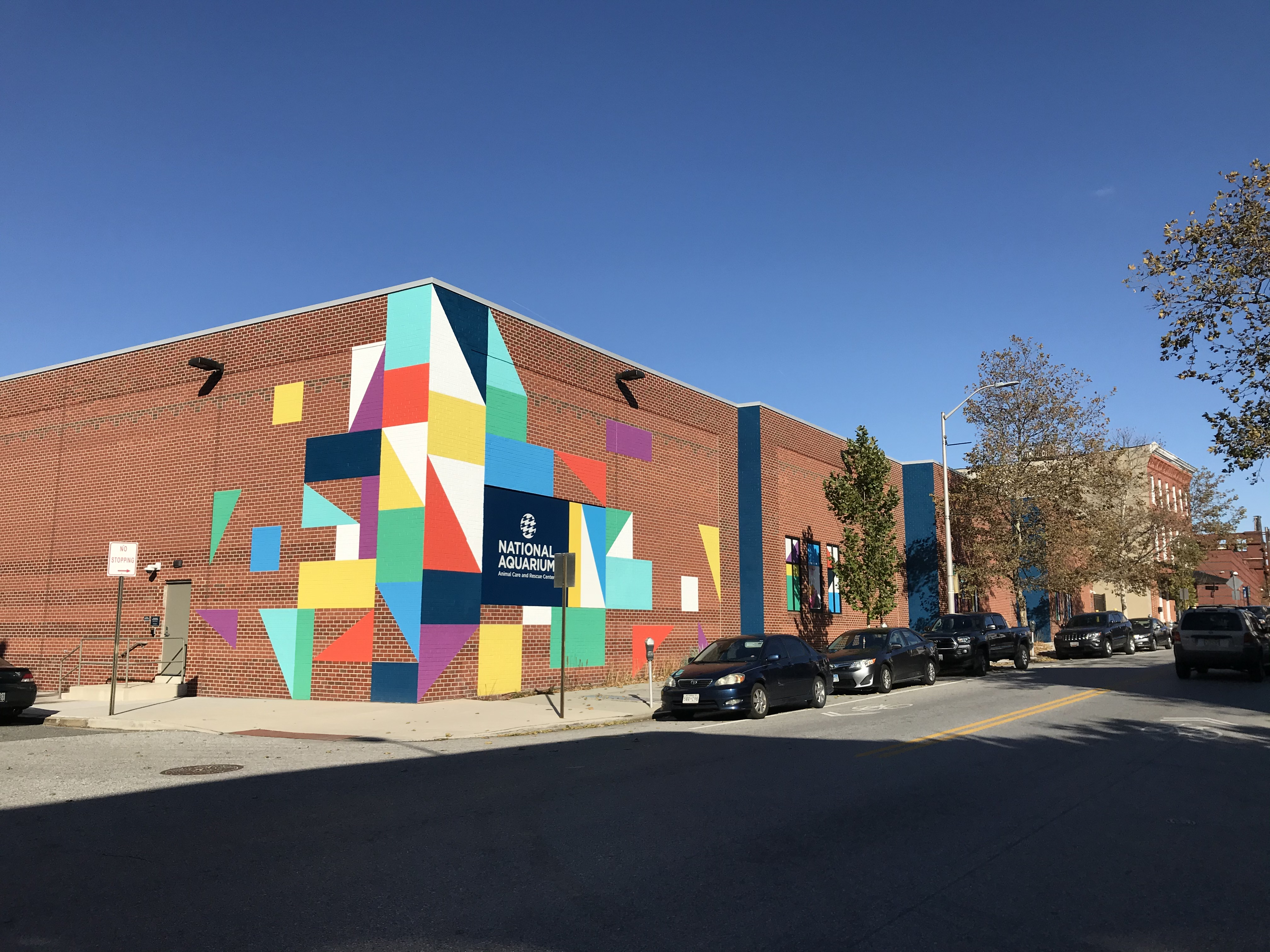 Photograph by Eli Pousson, 2019 November 13.